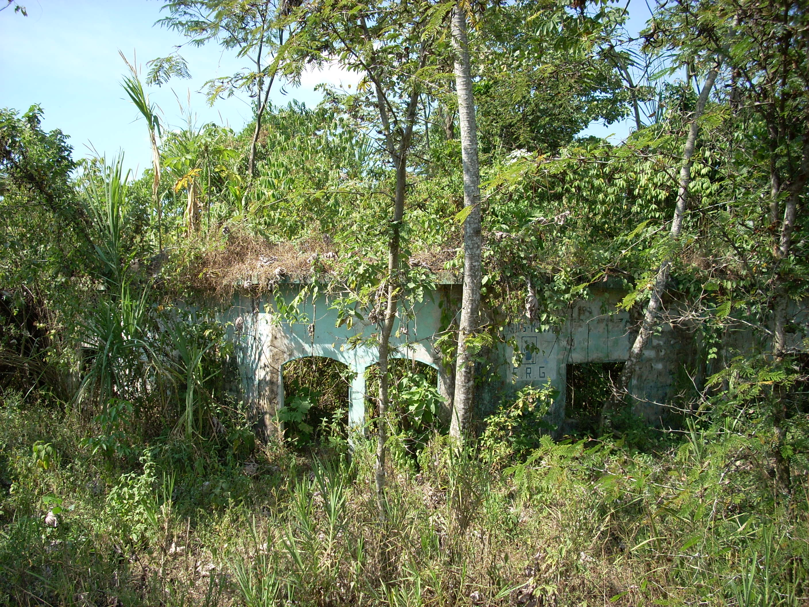 Overgrown municipal palace, Viejo Palmar.